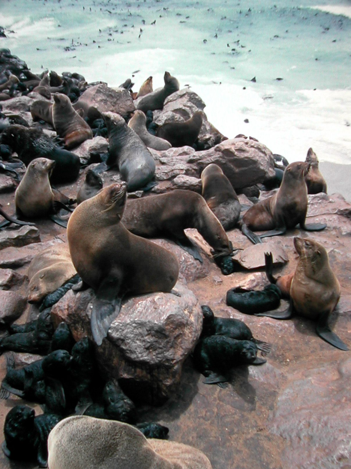 Cape fur seal (Arctocephalus pusillus pusillus), Picture taken at Cape Cross, Namibia, Dec. 2003